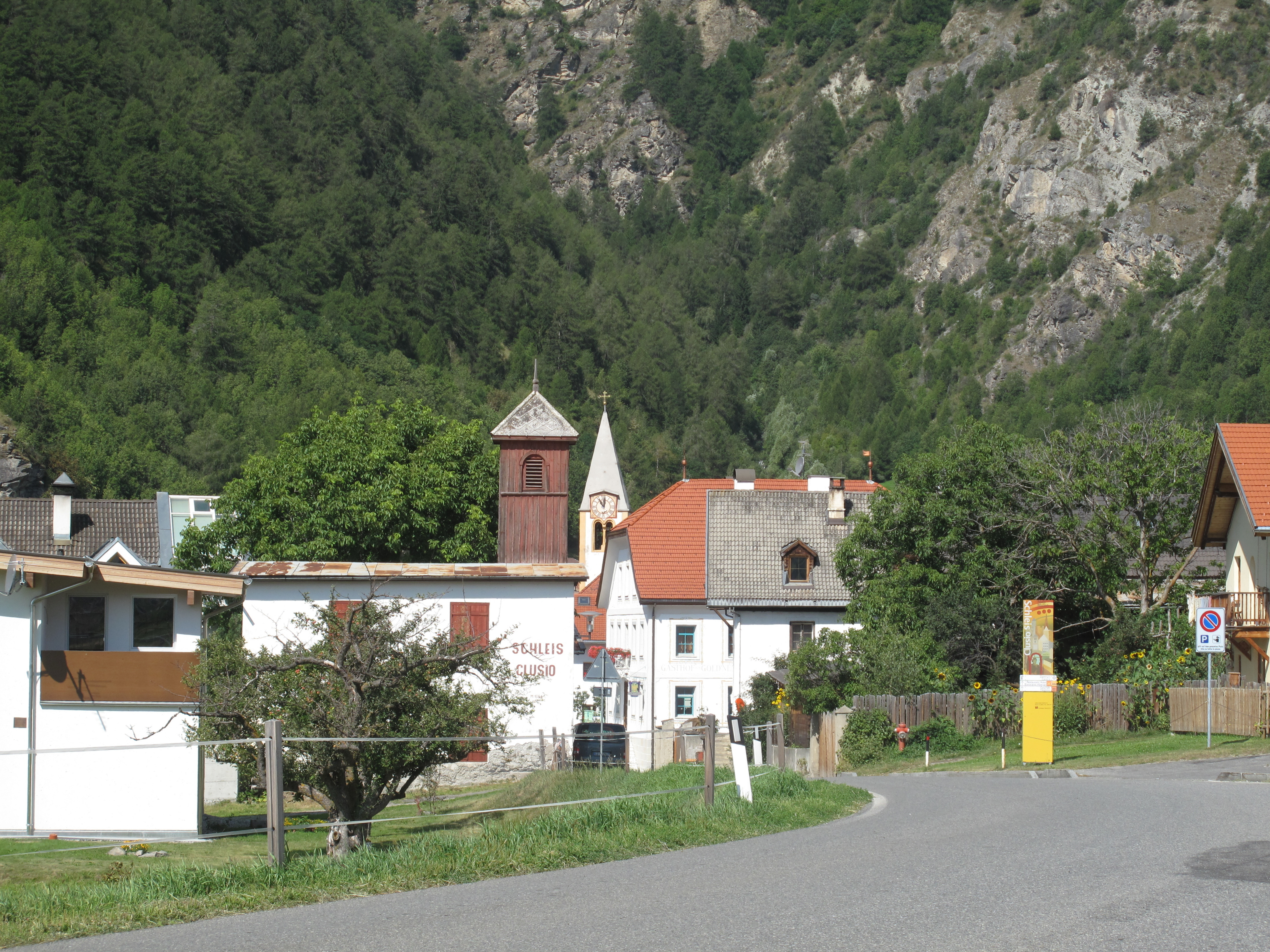 Clusio, view to the village